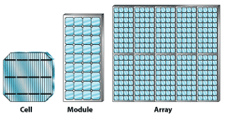 Picture of PV cells